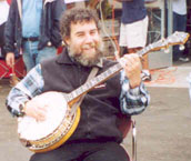 Steven Block with banjo